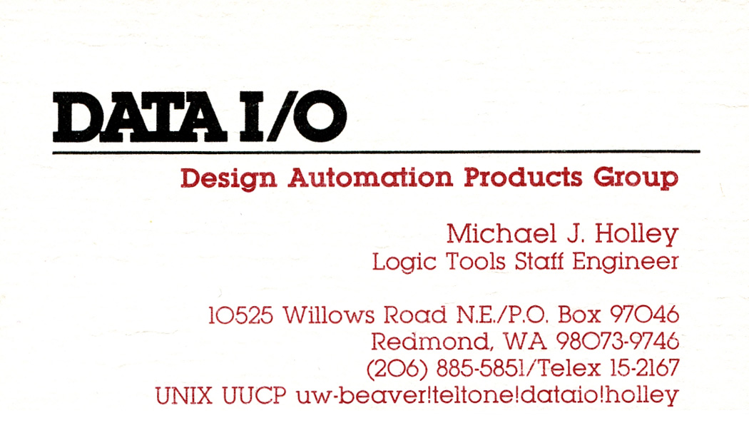 An email address before the Domain Name System provided .COM, .EDU, .GOV and similar addresses. The address "uw-beaver!teltone!dataio!holley" used the Unix-to-Unix copy program ( UUCP). The University of Washington's UNIX computer named uw-beaver was an open mail relay with a known IP address. An incoming email was copied to uw-beaver then to a computer at Teltone (a nearby manufacturing company) and finally to a computer at Data I/O and Michael Holley's email file. Data I/O registered and Teltone registered on Nov 17, 1986 and were in the first 50 .COM addresses assigned.